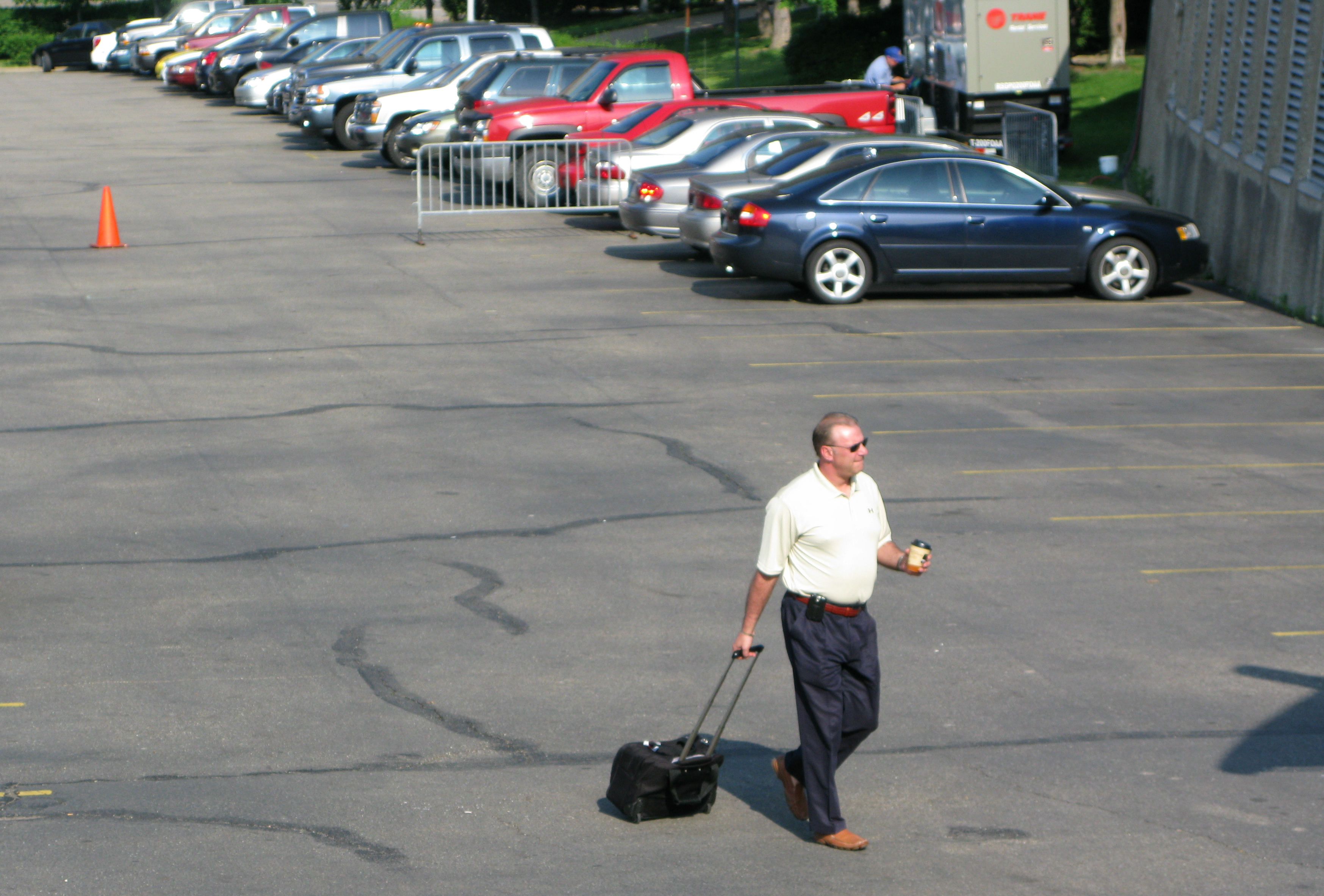 Pittsburgh Penguins head coach Michel Therrien walking to the Mellon Arena ("The Igloo") in the morning of June 6, the last day of the 2007-2008 season ("locker cleaning"), two days after Penguins lost game 6 of Stanley Cup Final series to the Detroit Red Wings.